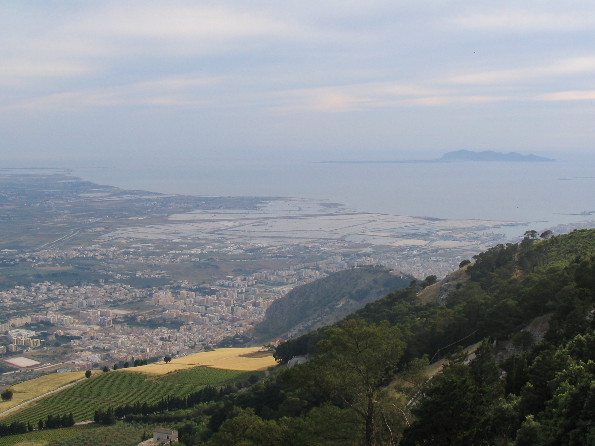 Trapani viewed from Erice, Sicily, Italy